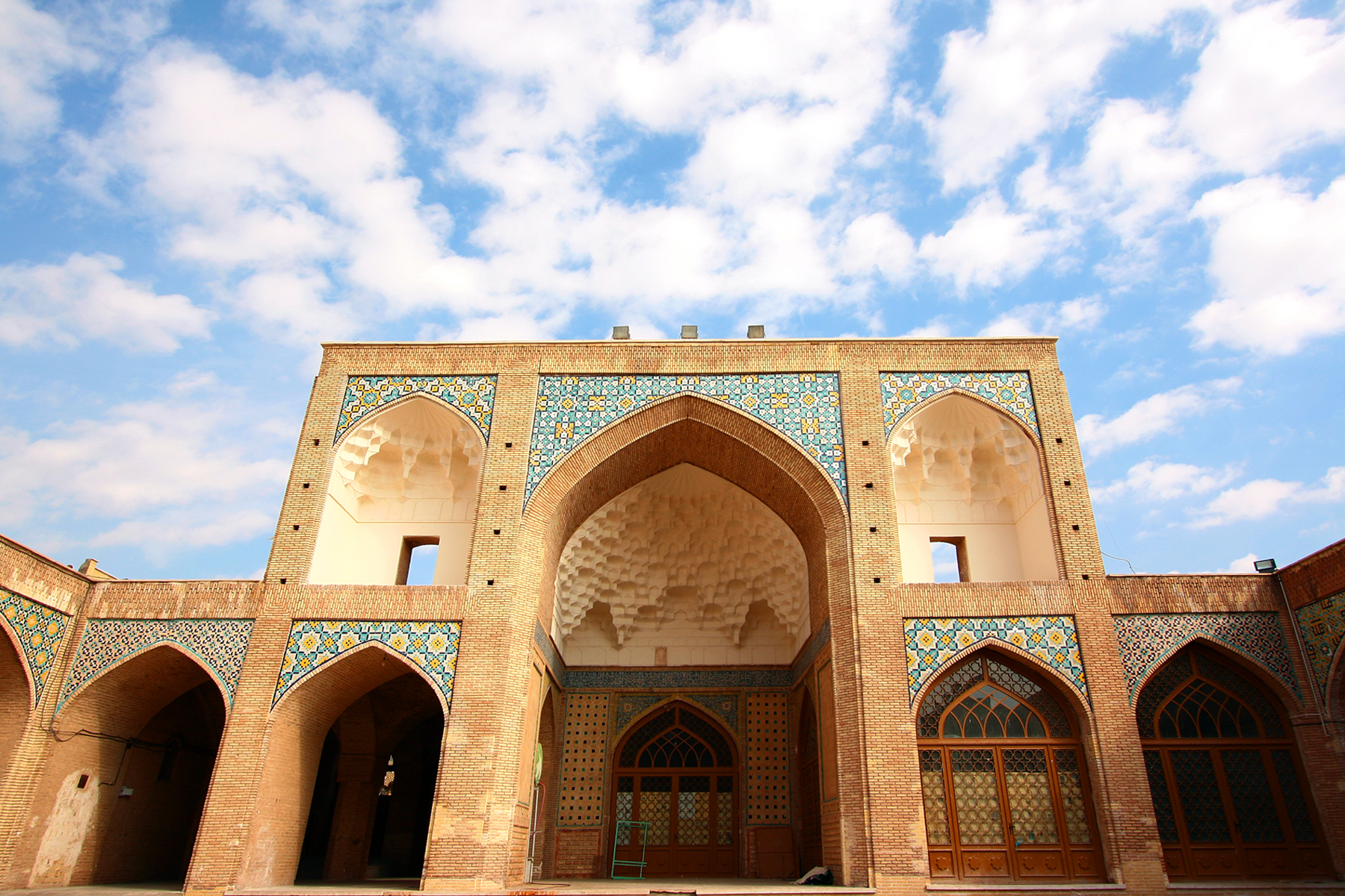 Qom Mosque